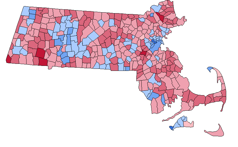 Massachusetts presidential election results by municipality, November 1980